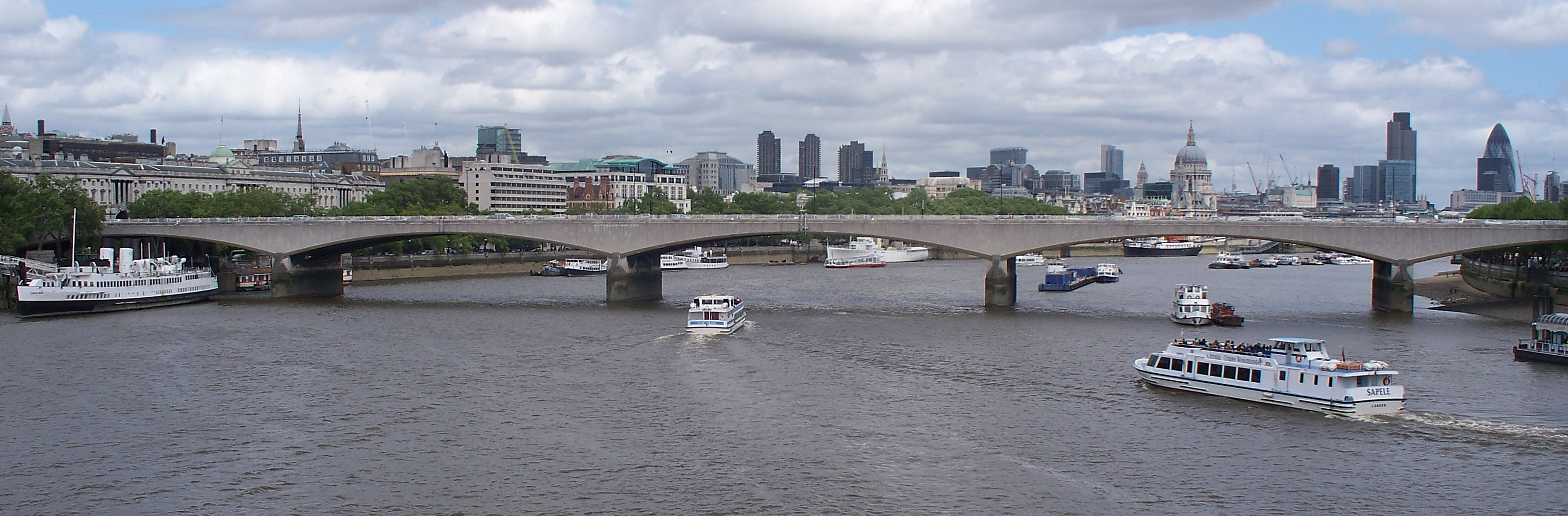 Waterloo Bridge, London. Photograph taken in a public location in the UK of a building on permanent public display, and exempt from copyright under Section 62 of the Copyright Designs & Patents Act 1988 ("it is not an infringement of copyright to film, photograph, broadcast or make a graphic image of a building, sculpture, models for buildings or work of artistic craftsmanship if that work is permanently situated in a public place or in premises open to the public")